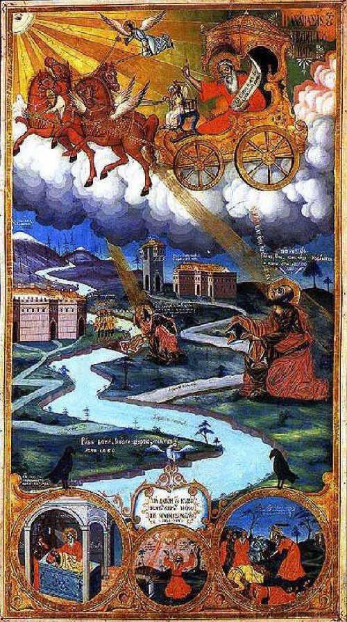 Ascention of Elijah Icon 1850 Teshovo